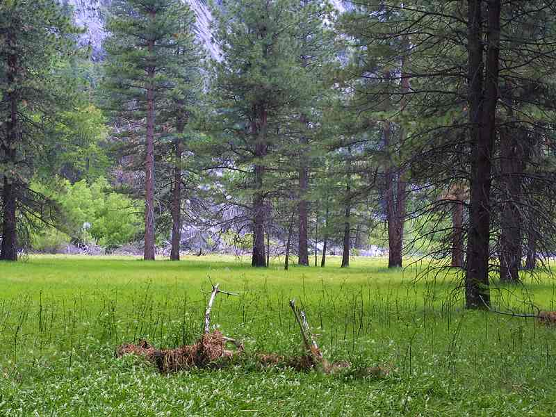 Pinus ponderosa subsp. benthamiana trees in a meadow, Sequoia National Park, California